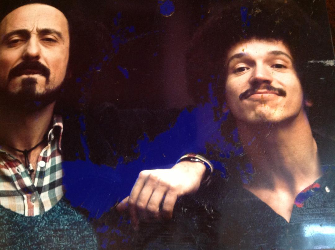 Giacomo Pellicciotti e Keith Jarrett fotografati dopo un'intervista